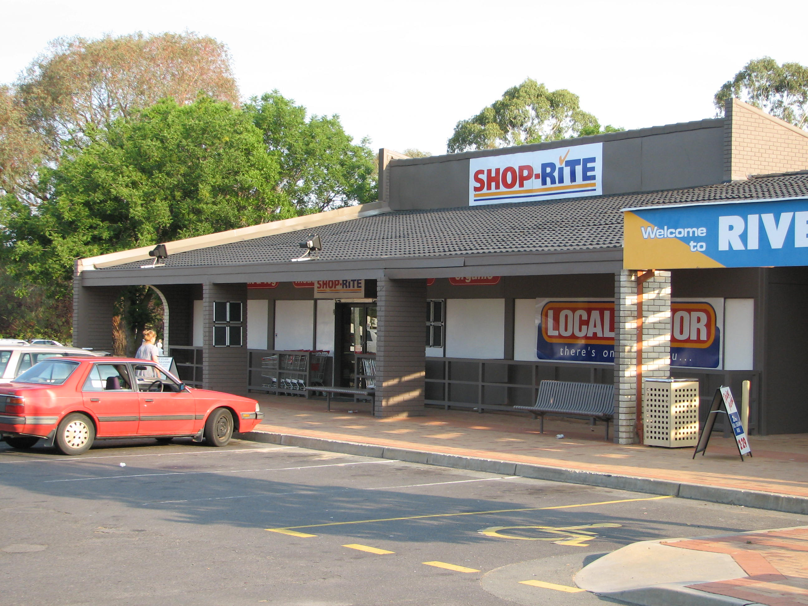 Local shops (Shop-Rite) at 3, Rivett Place, in Rivett, Australian Capital Territory. Taken by me on 14th January 2007.